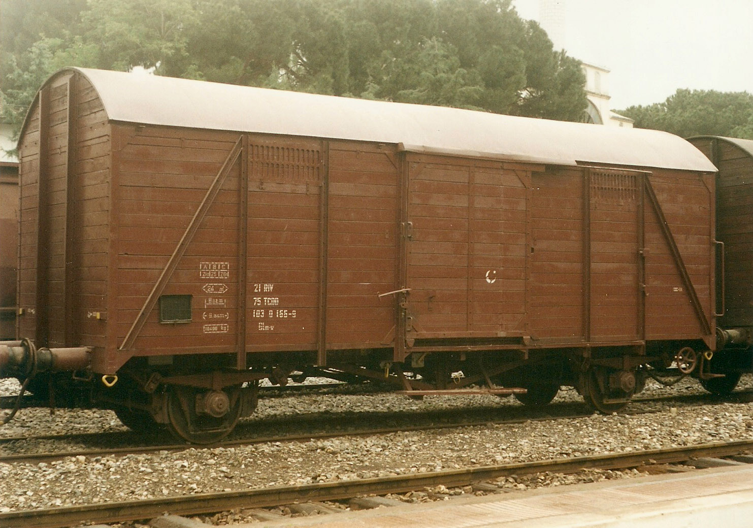 TCDD Class Glm-v 21 75 103 0 166-9 made in Czechoslovakia in Selçuk